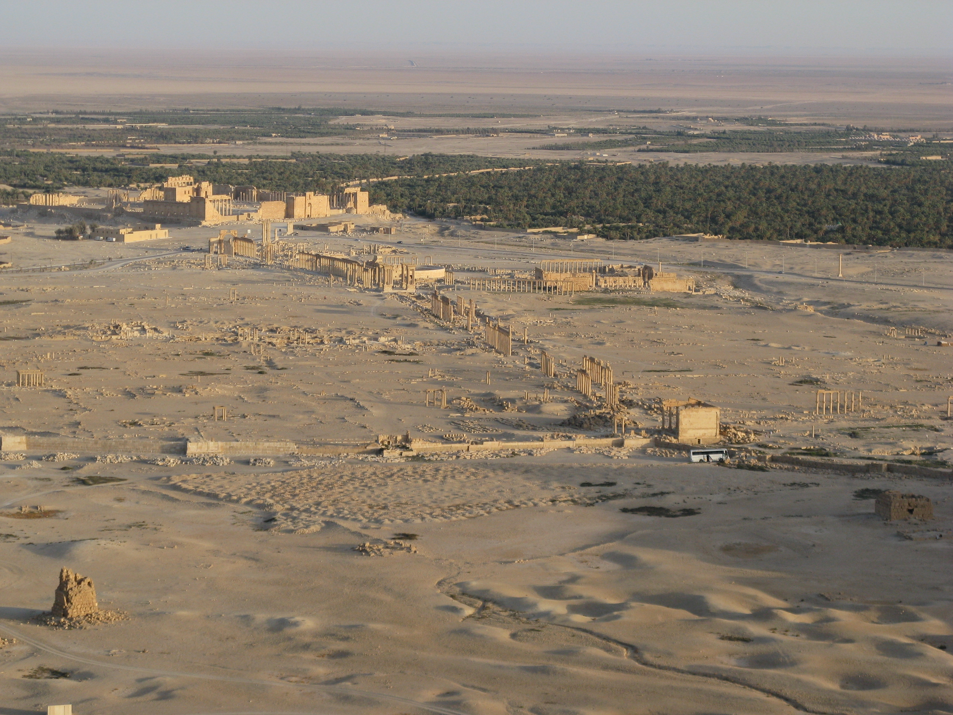 Palmyra from the citadel